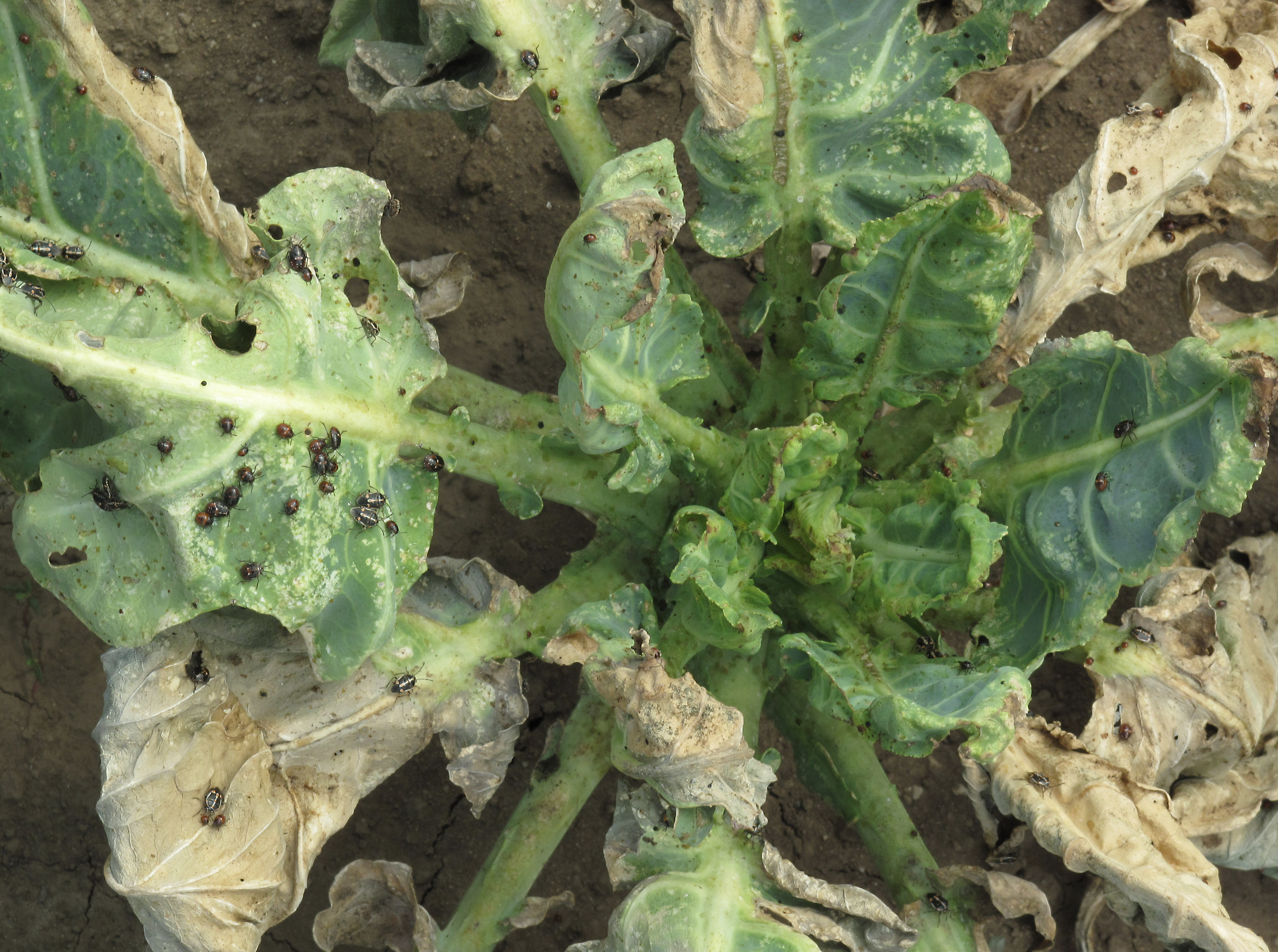 Several stages of Bagrada bugs (Bagrada hilaris) on heat- and drought-stressed collard greens plant (Brassica oleracea var. acephala). The characteristic damage to the plant made by the insects sucking juices from the leaves is evident. On thick leaves like the leaves of these collard greens, the bugs leave white scars on the surface of the leaves. On thinner leaves, like mustard greens, the damage causes papery whitish patches. This photo was taken in central Los Angeles, California.